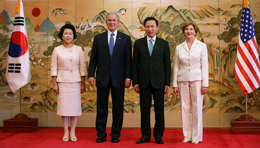 President George W. Bush and Mrs. Laura Bush are seen with South Korean President Lee Myung-bak and first lady Kim Yoon-ok during arrival ceremonies Wednesday, Aug. 6, 2008, at the Blue House presidential residence in Seoul, South Korea. White House photo by Chris Greenberg